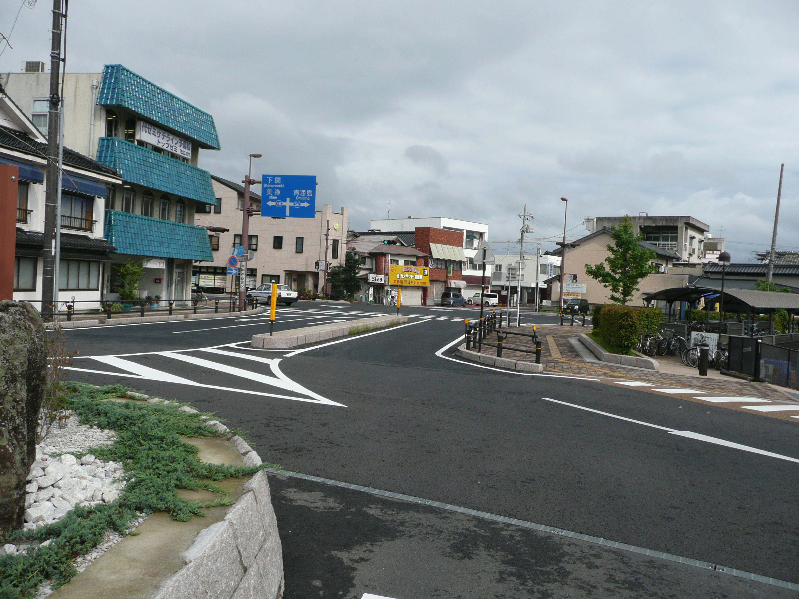 長門市駅前